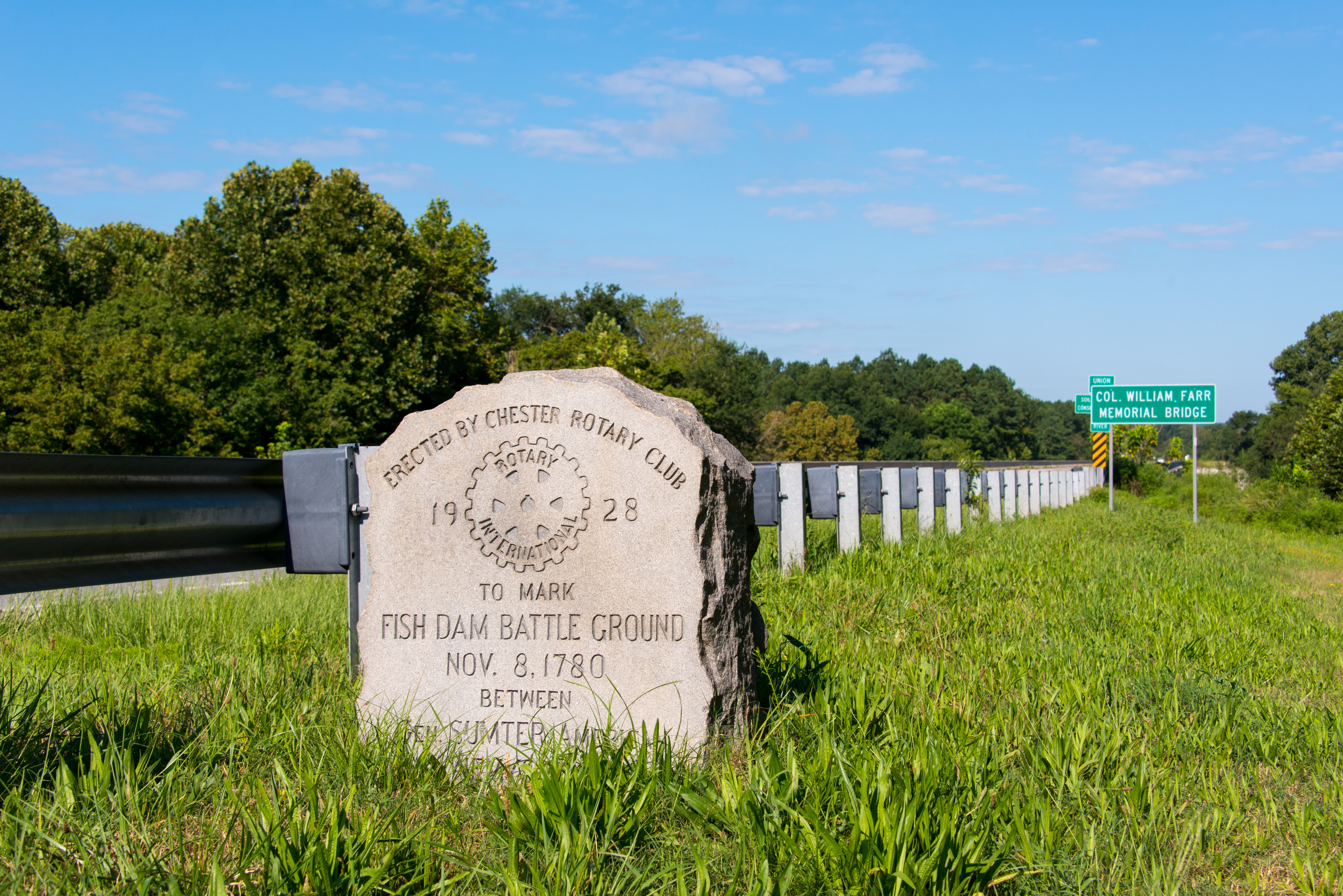 Monument, erected by Chester Rotary Club in 1928, marks the Fish Dam Battle Ground (along the Broad River); where on November 9th, 1780 (yes, the date on the stone is wrong), Gen. Sumter (American) and Maj. Wemyss (British) fought. Hidden deep underneath both names says "Won by Americans." The Col. William Farr Memorial Bridge was built in 2007 (replacing an older, narrow bridge), so it's a safe bet this marker was moved from its original location to this more obvious and safe location along the highway; nearby the historic marker. What's really interesting is that this monument is marked on the USGS Topographic Map for this area.